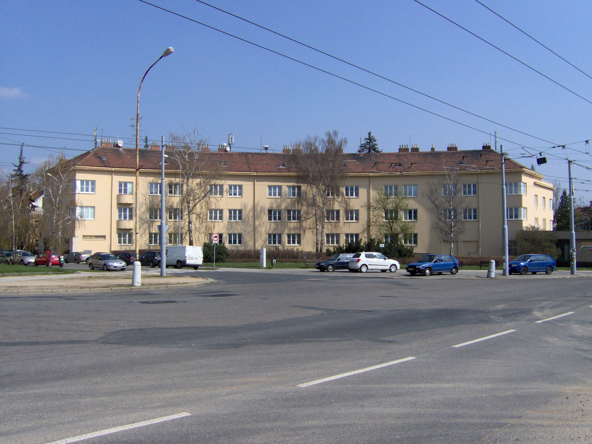 Vaňkovo náměstí, Brno, Czech Republic